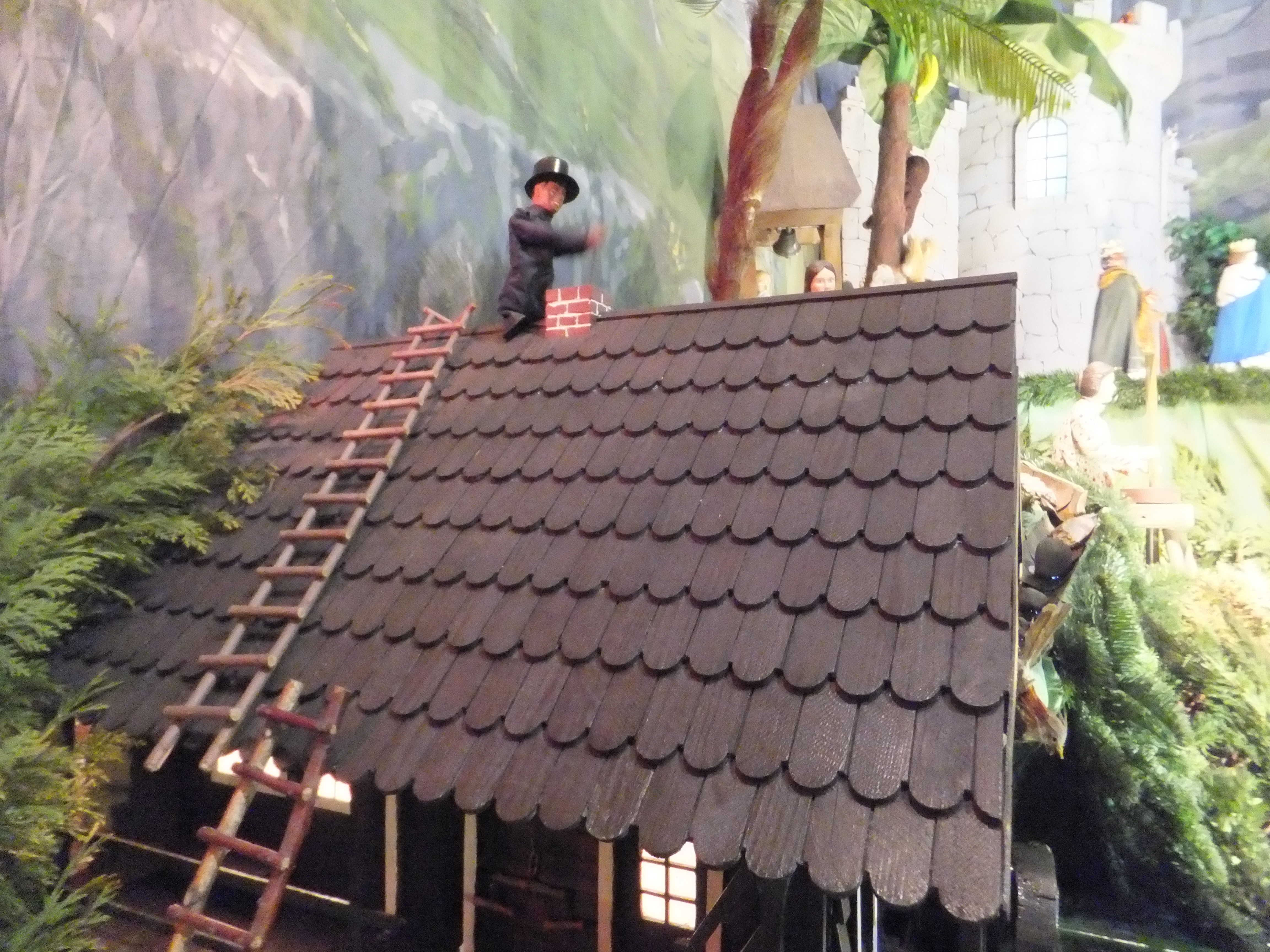 Moving crib in Saint Bartholomew church in Bieruń (Poland). Moving crib is built every year since 1955. It consists of more than 100 figures (most of the figures moving).